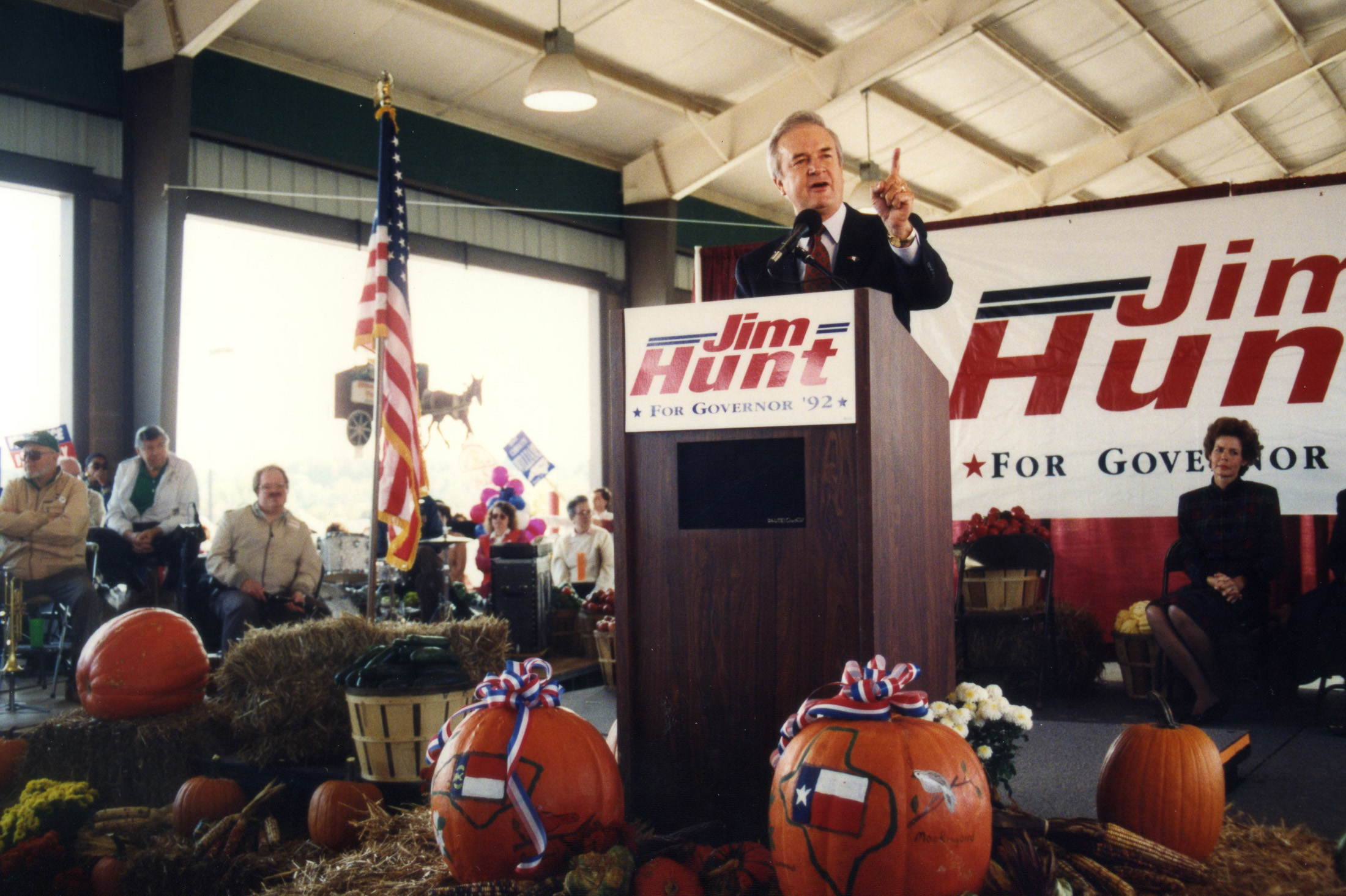 Jim Hunt on the campaign trail 1992